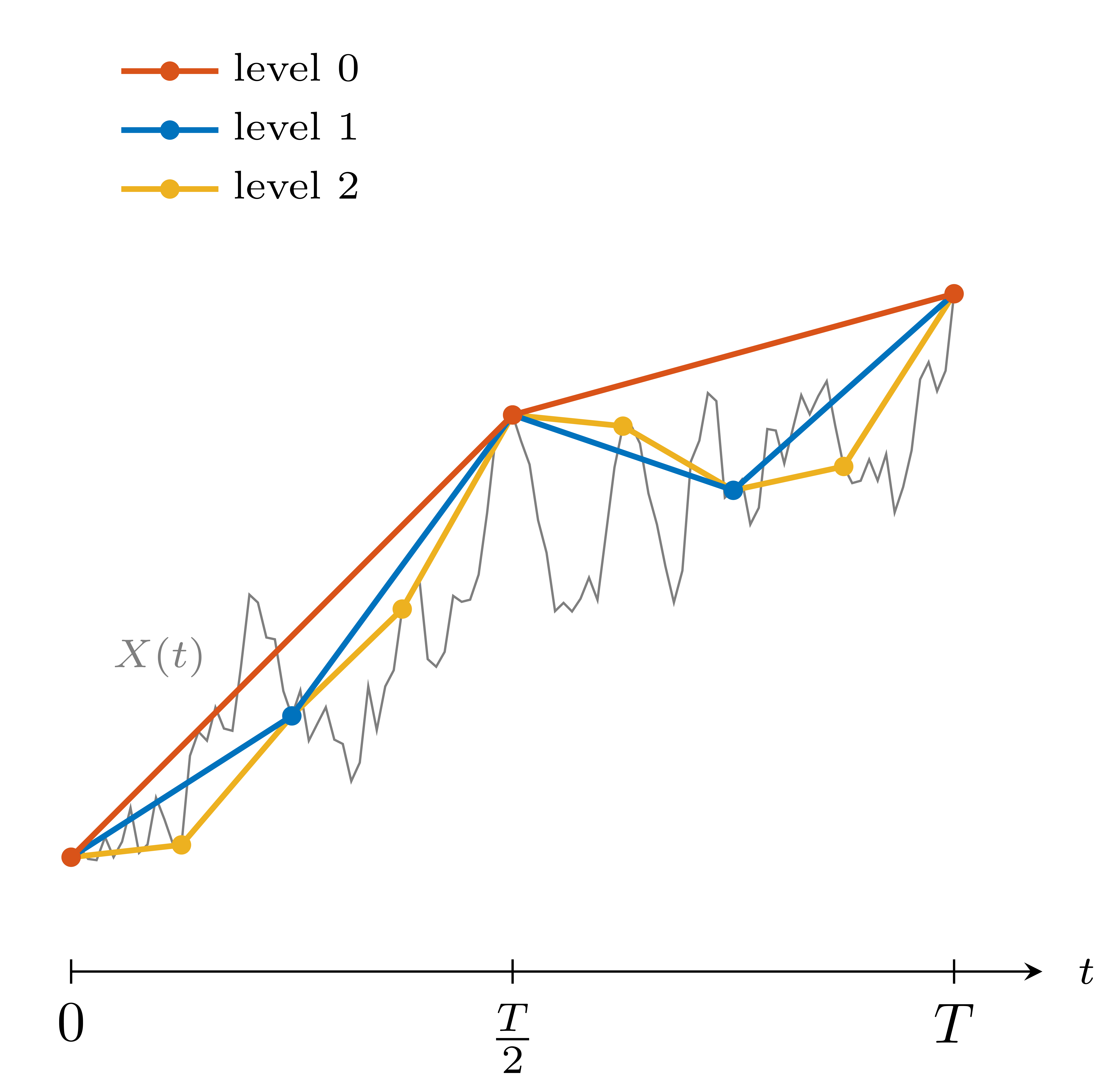 Multilevel monte carlo sample paths for an SDE